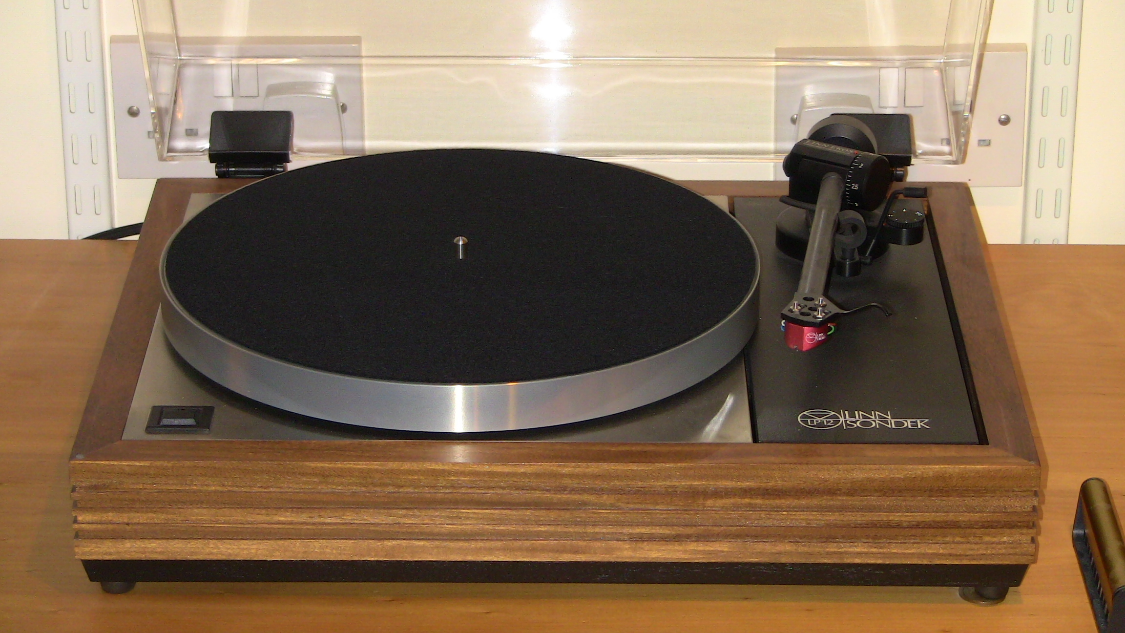 Linn Sondek LP12 turntable with Linn Ekos tone arm and Troika (moving coil) cartridge